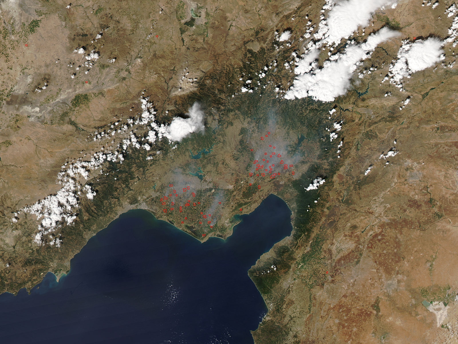 2015 satellite picture- Fires in south central Turkey